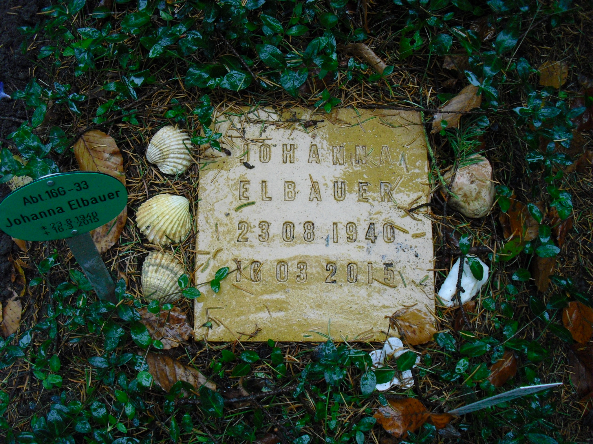 Grave of German actress Johanna Elbauer in Friedhof Heerstraße in Berlin-Westend